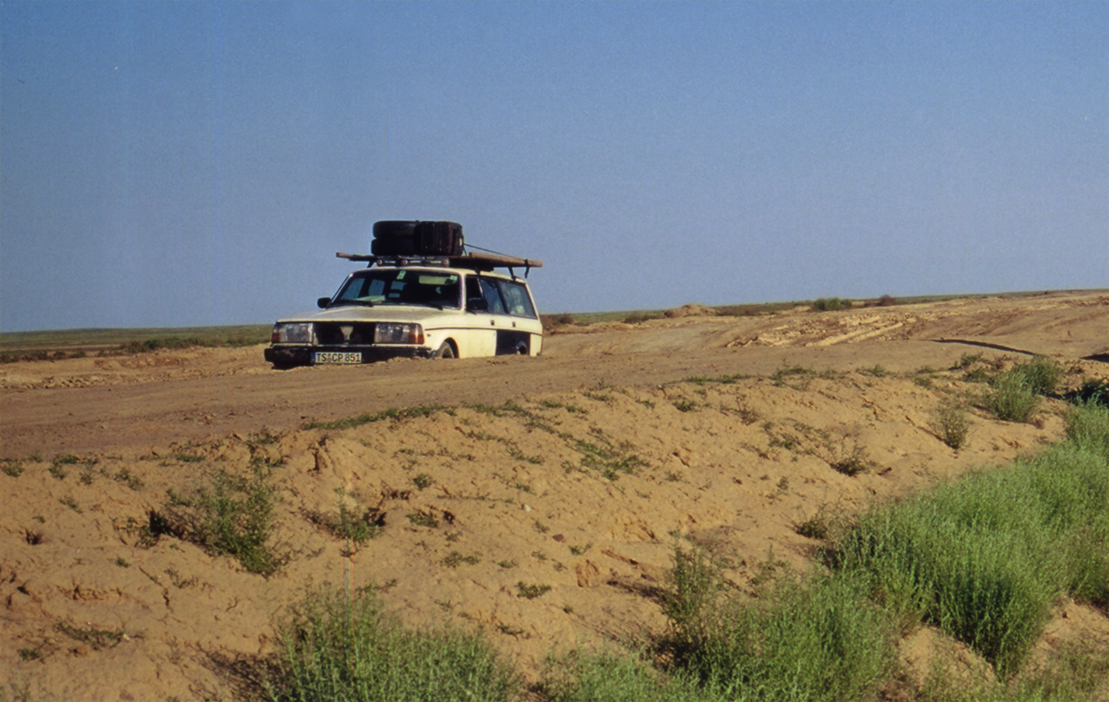 Pothole in the E 40